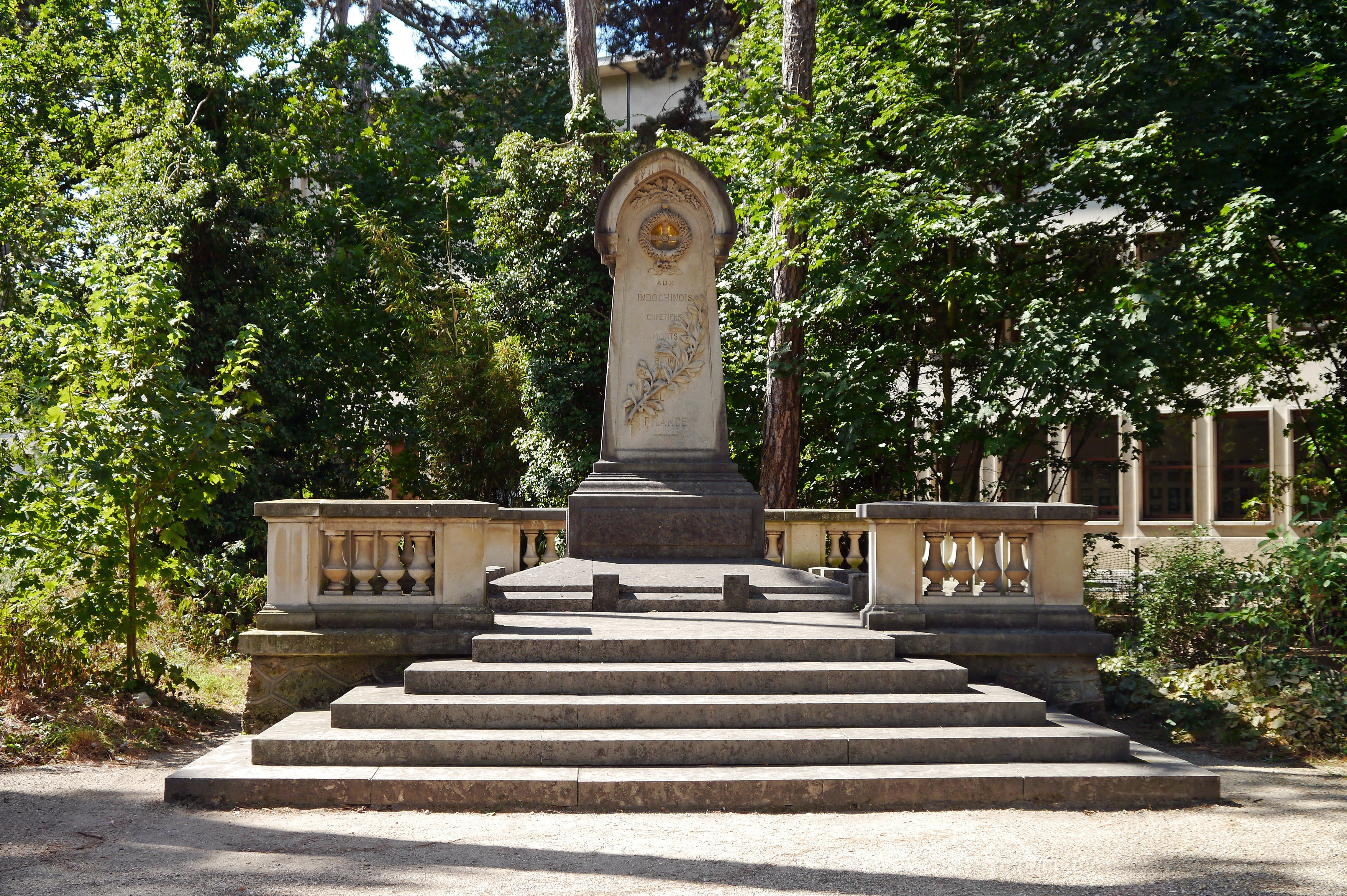 Jardin tropical, Paris 12th arrondissement, France. Monument aux Indochinois chrétiens morts pour le France.